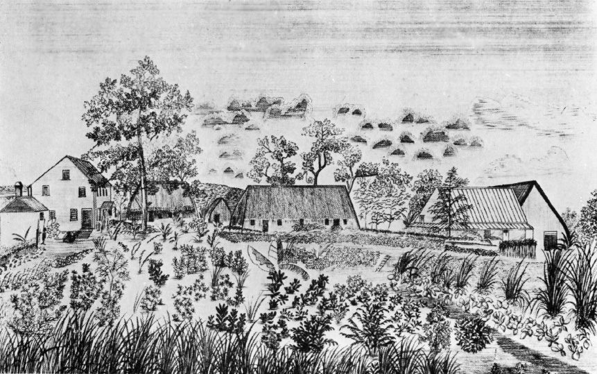 Lahainaluna engraving from a drawing by Rev. Edward Bailey of the original campus of the Hilo Boarding School on the island of Hawaii, built in 1836 under the direction of Sarah Joiner and Rev. David Belden Lyman.